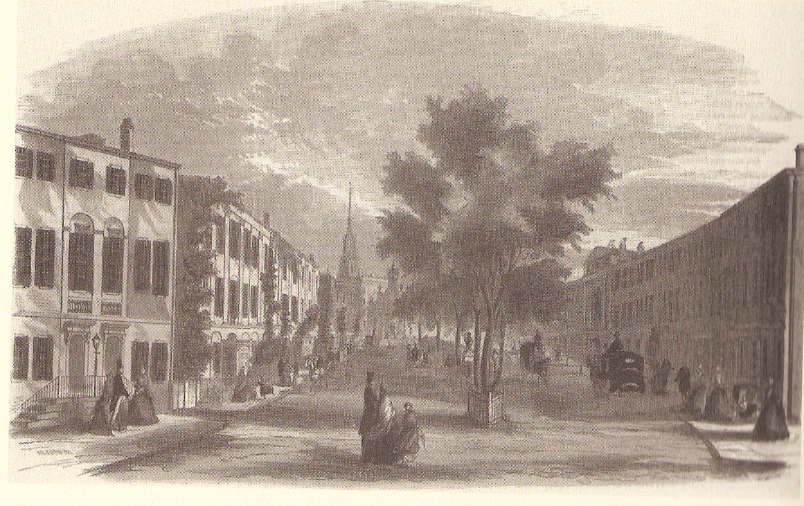 "View of Franklin Street, Boston", Ballou's Pictorial Drawing-Room Companion, September 1, 1855. Scanned by me from Goodman, Phebe S. The Garden Squares of Boston, 2003, p. 30.